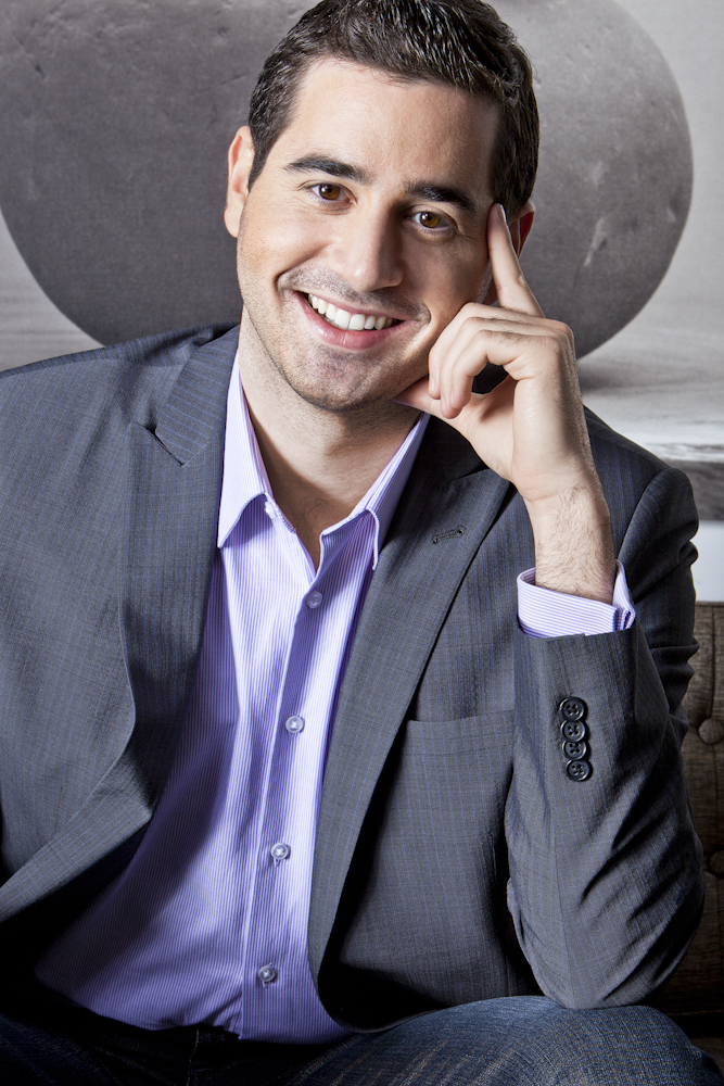 Michael Gluck, founder and president of the market research firm VGMarket.